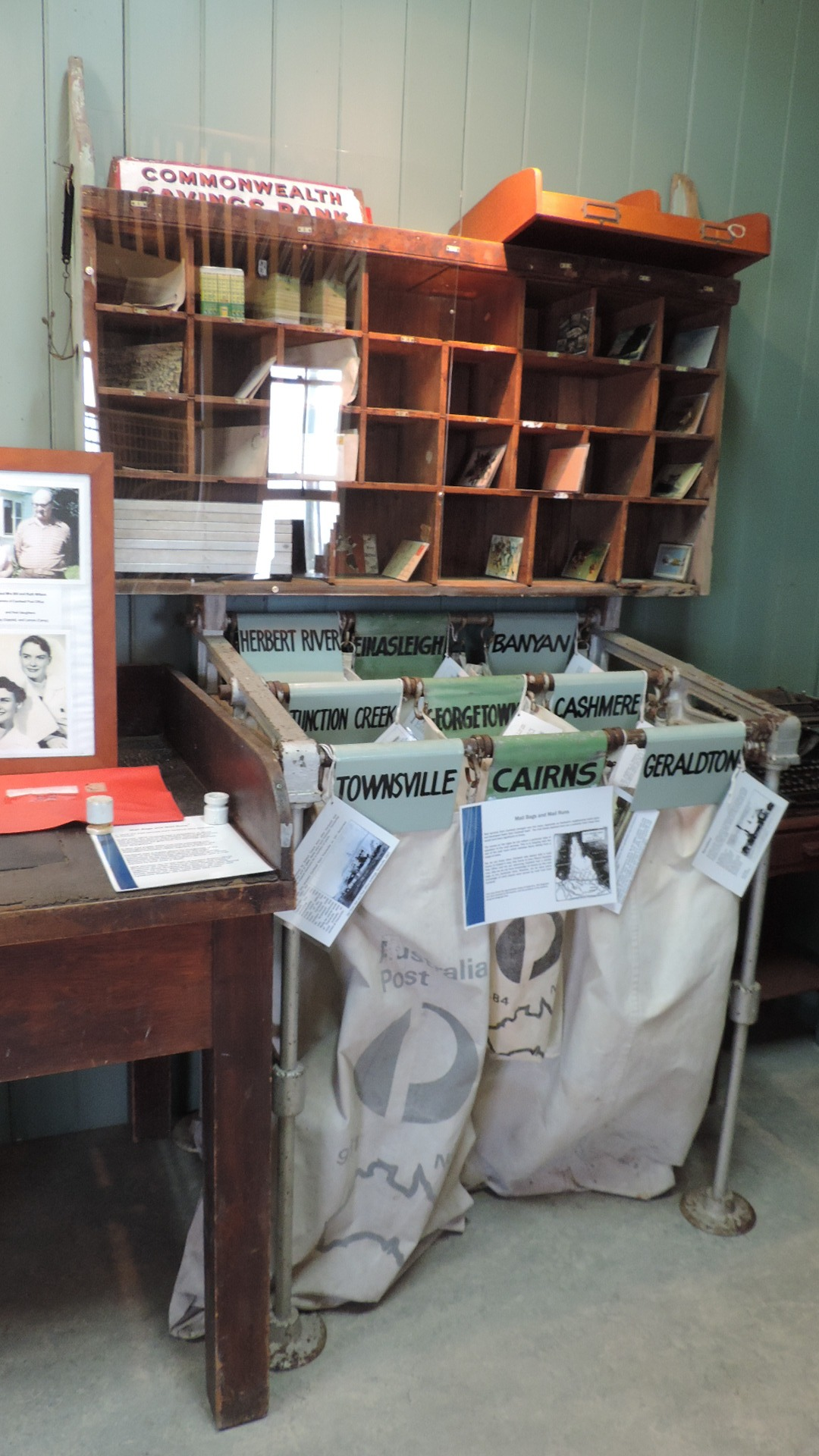 Mail sorting display, Cardwell Bush Telegraph, 2016 so